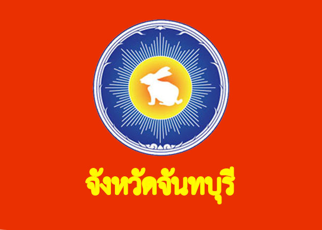 Flag of Chanthaburi Province